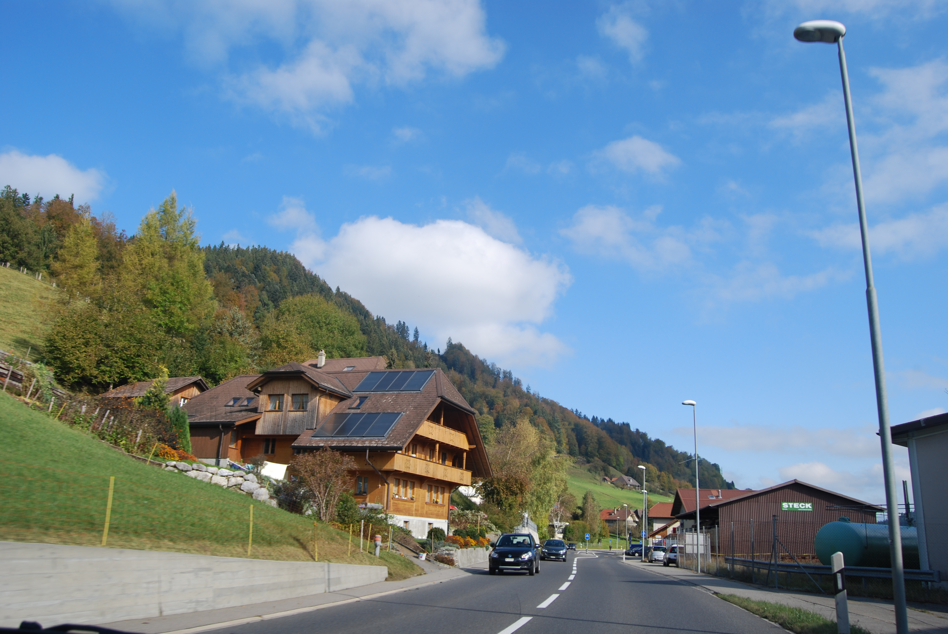 Bowil, canton of Bern, SwitzerlandEsperanto: Bowil, Kantono Berno, Svislando